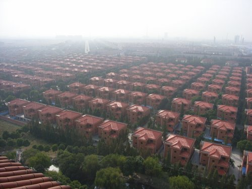 Wuxi, Jiangshu